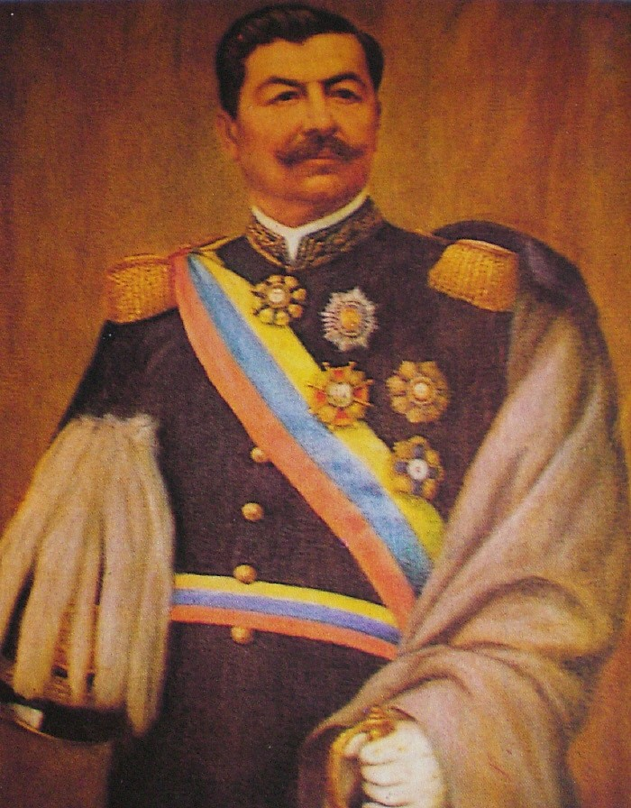 Portrait of Juan Vicente Gómez.